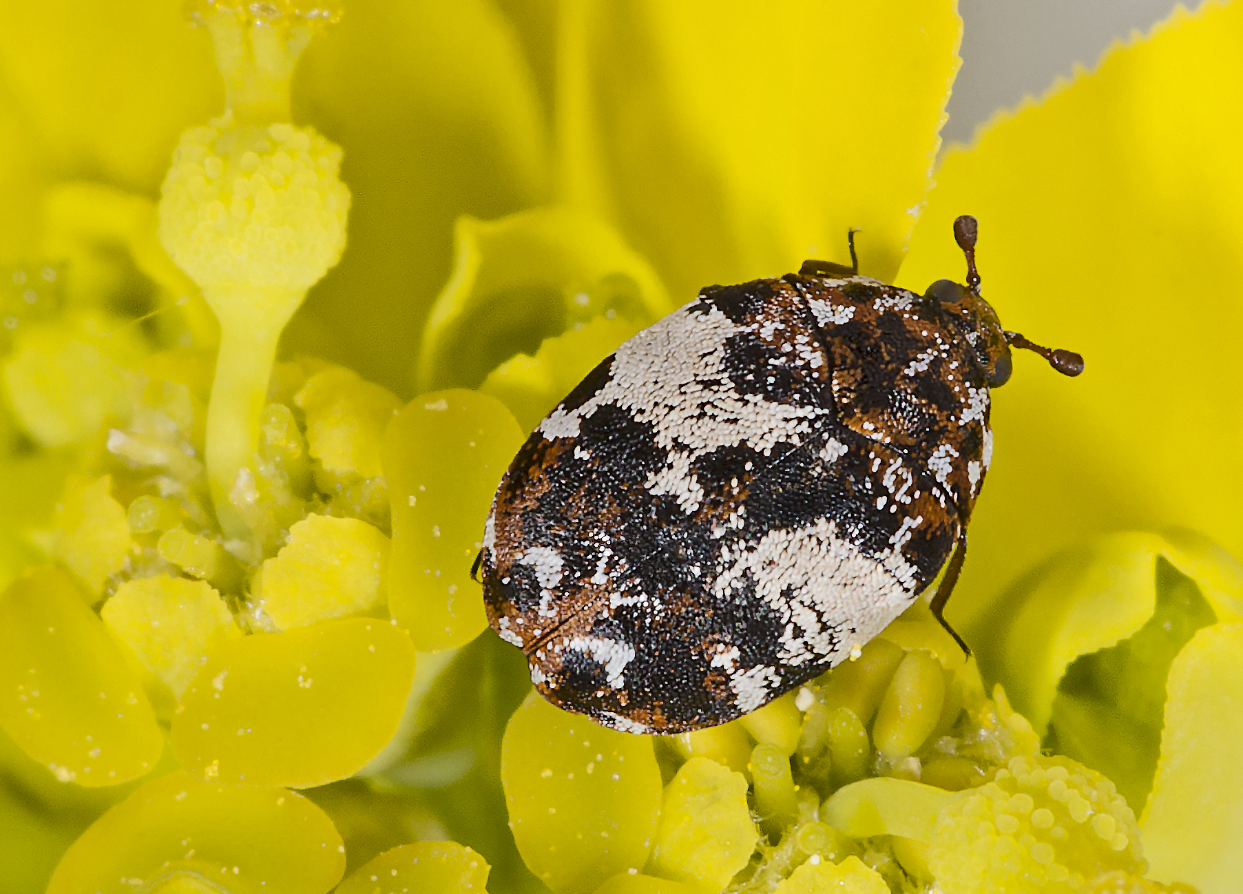 Anthrenus pimpinellae Dorsal side